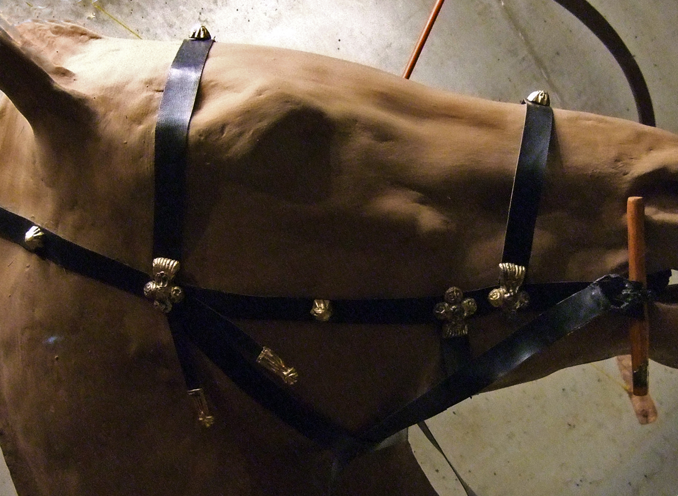 Bridle mountings from the Avar cemetery of Gyenesdiás Zala County, Hungary Up to now, 351 burials (about two-thirds of the total number) have been documented at the Avar cemetery, which was in use from 630 to the early 9th century. Relatively few weapons were found in the graves. About 20 burials were accompanied with a horse, as was characteristic for numerous Avar men's graves. A basket-shaped earring pendant typical of Keszthely culture was discovered in the grave of only one woman who had been buried in accordance with heathen ritual. The largest and richest graves were, with a single exception, already robbed during the Avar era. Grave 64 On the north side of the burial pit, a man was interred in a wooden coffin with a reflex bow and saber, the characteristic weapons of a middle Avar mounted warrior of the middle period (670 to ca. 715). A harnessed horse lay on his right side, facing in the opposite direction. The front part of the horse and part of the coffin were covered with a large goat skin. Photographed while on display from 22 August 2008 to 11 January 2009 in the exhibition "Die Langobarden. Das Ende der Völkerwanderung" at the Rheinisches LandesMuseum Bonn. On loan from the Balatoni Múzeum Keszthely.